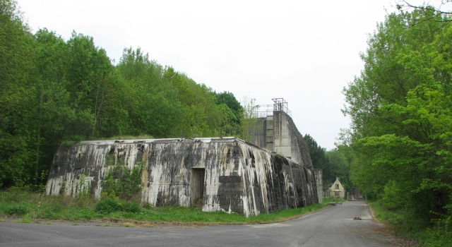 One of the Wolfsschlucht II main bunkers in Margival, in the Departement of Aisne.